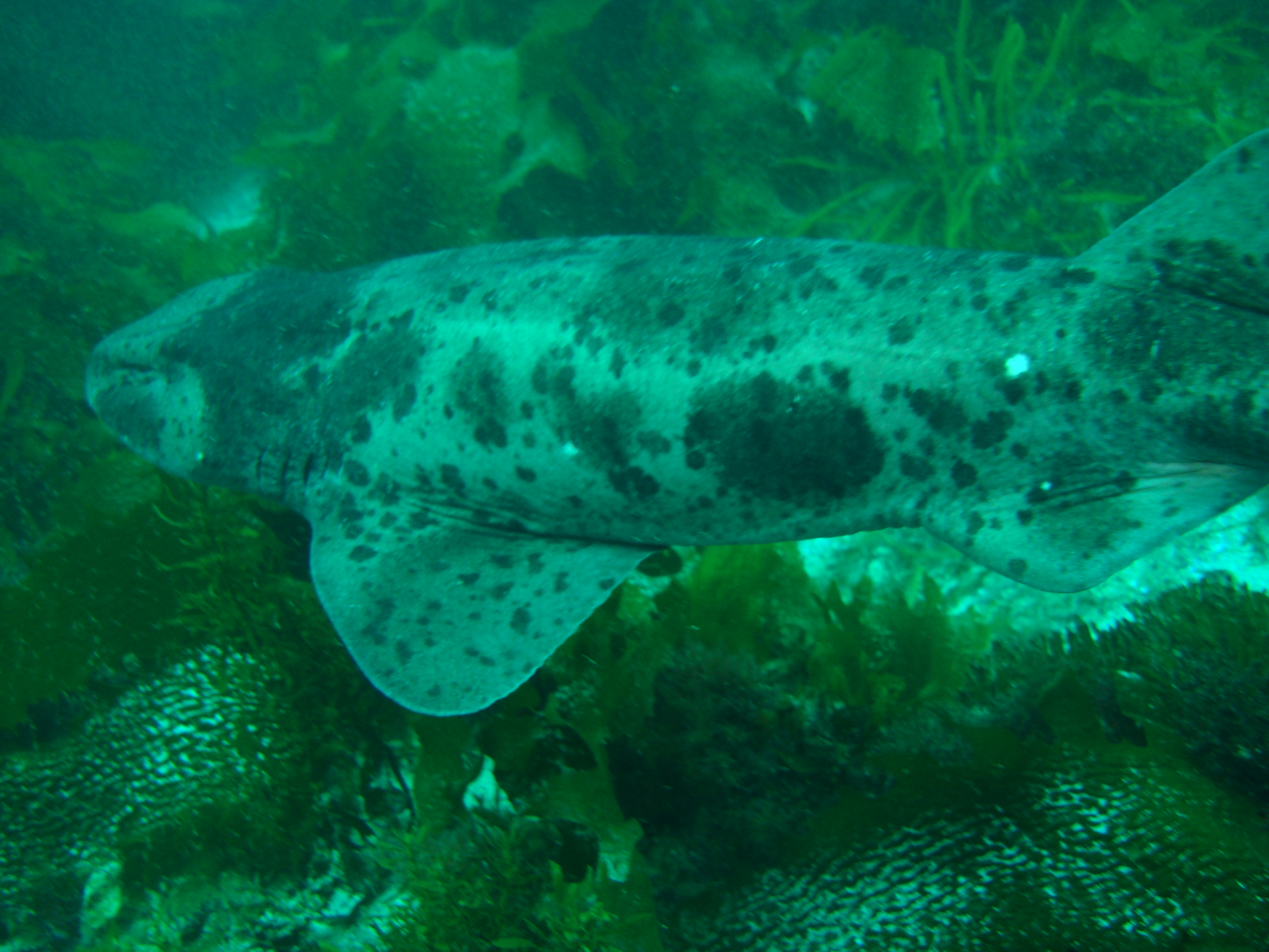 Draughtboard shark (Cephaloscyllium laticeps)